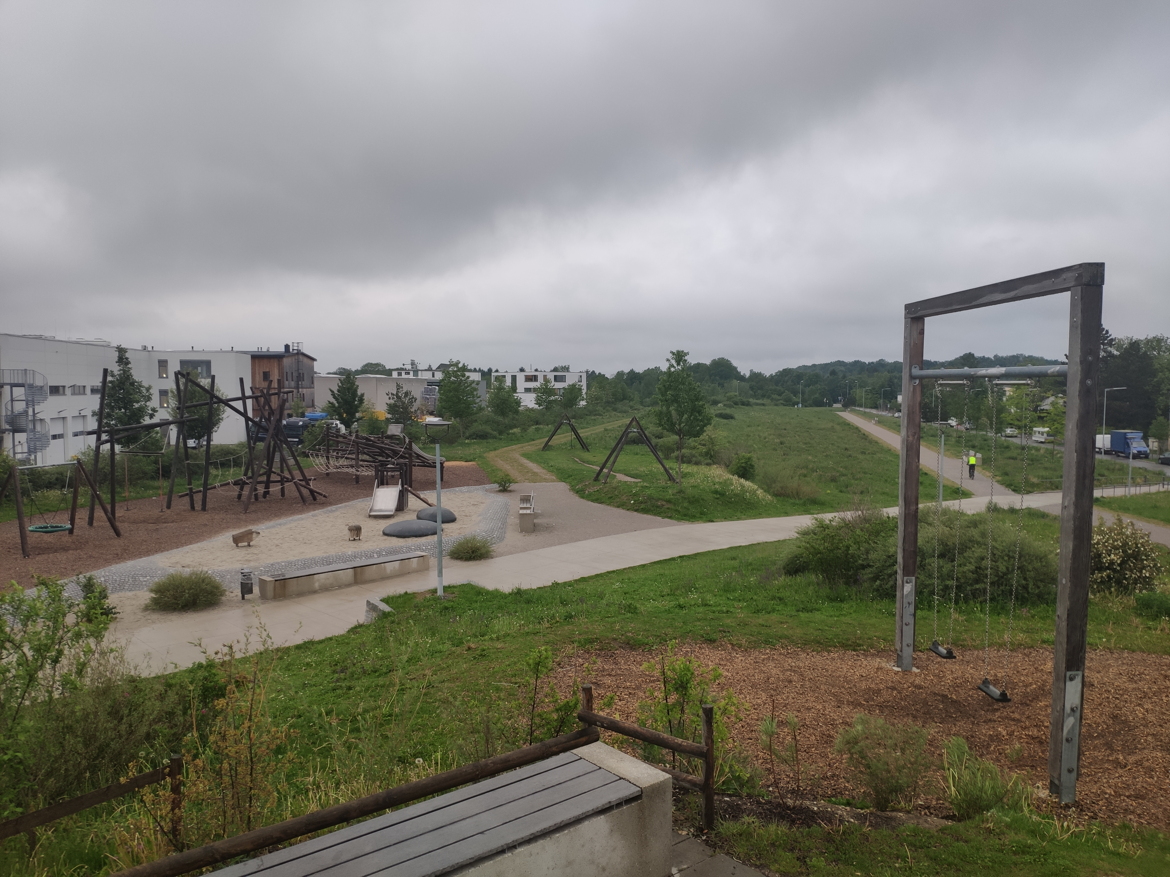 Grünfläche an der Schittgablerstraße